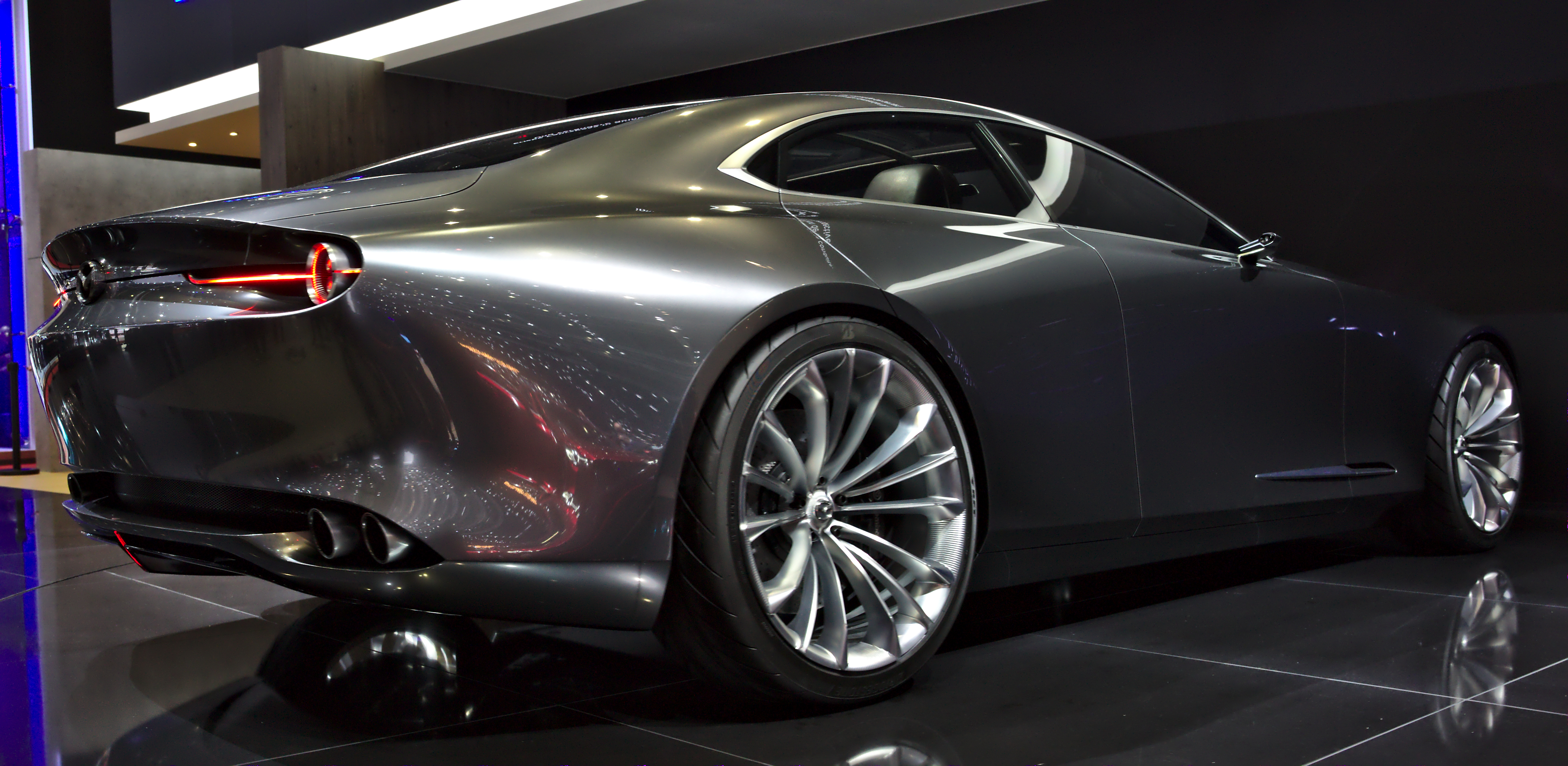 Mazda Vision Coupe Concept at Geneva Motorshow 2018